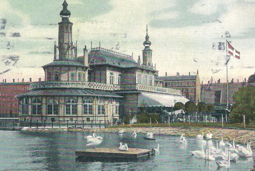 Søpavillionen in Copenhagen, Denmark